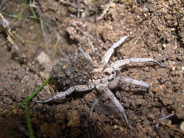 Lycosa tarantula with young (clustered on abdomen)